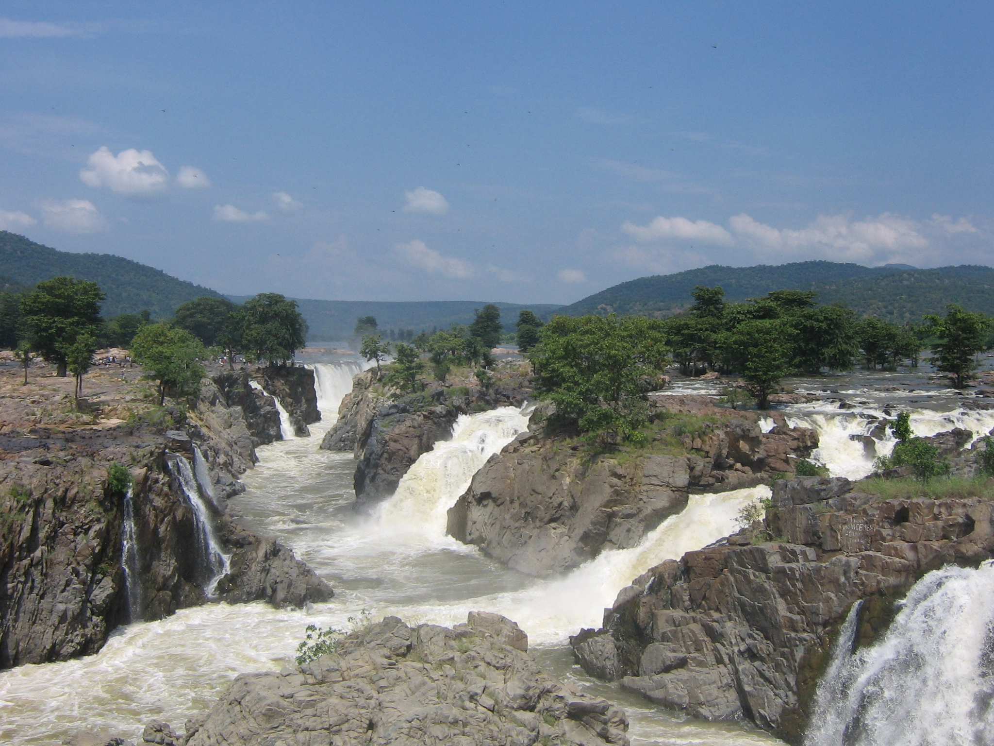 Hogenakkal Waterfalls in karnataka India